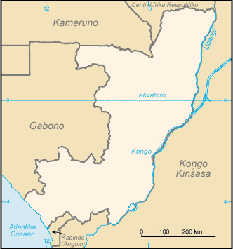 adaptation of File:Congo-BrazzavilleLocatormap.png, labels in Esperanto